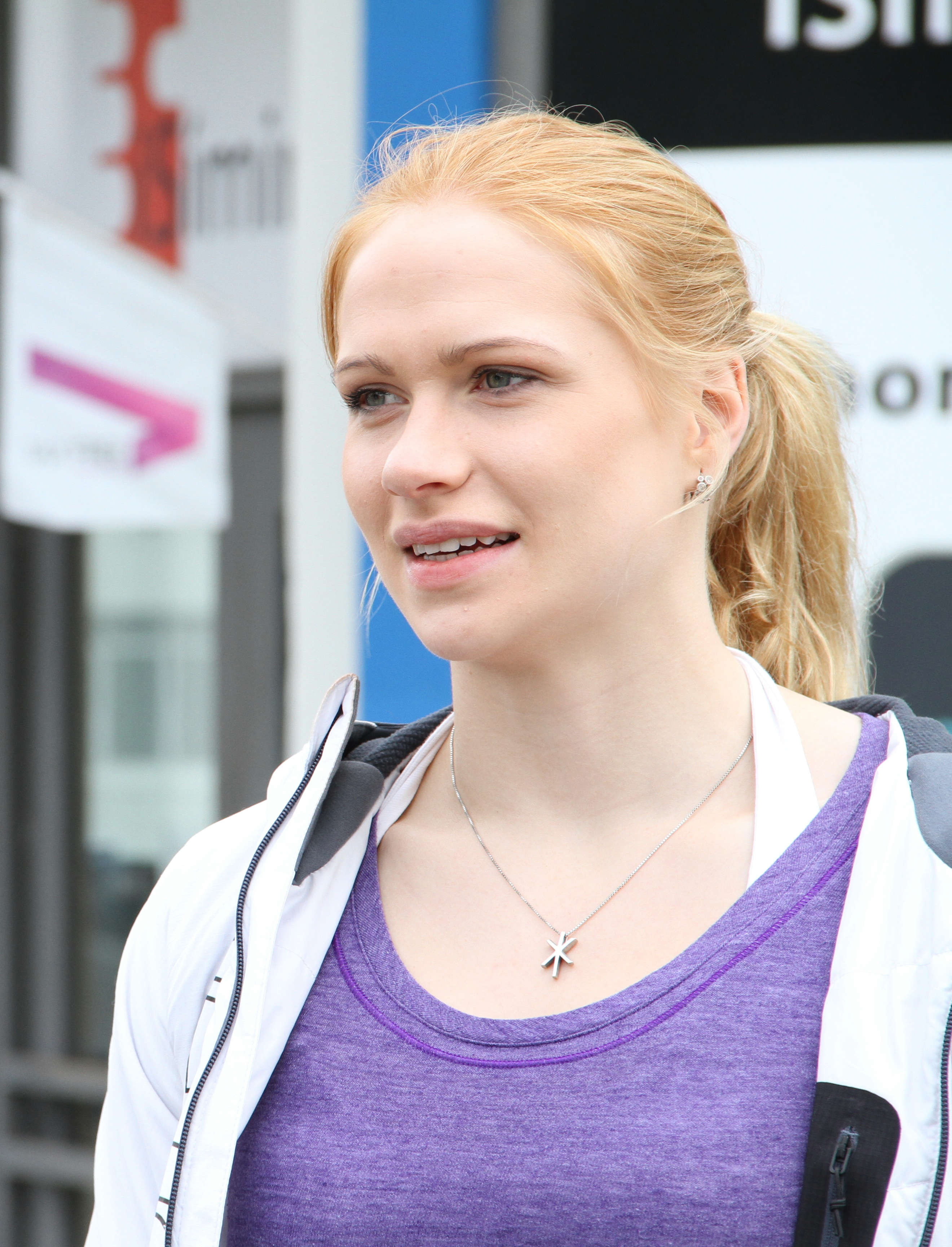 Annie Thorisdottir, a two time world champion in CrossFit and the only woman to win back to back titles in 2011 and 2012.